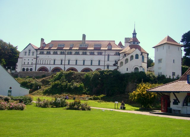 A lovely day on Caldey Island A view of the Monastery on Caldey Island.